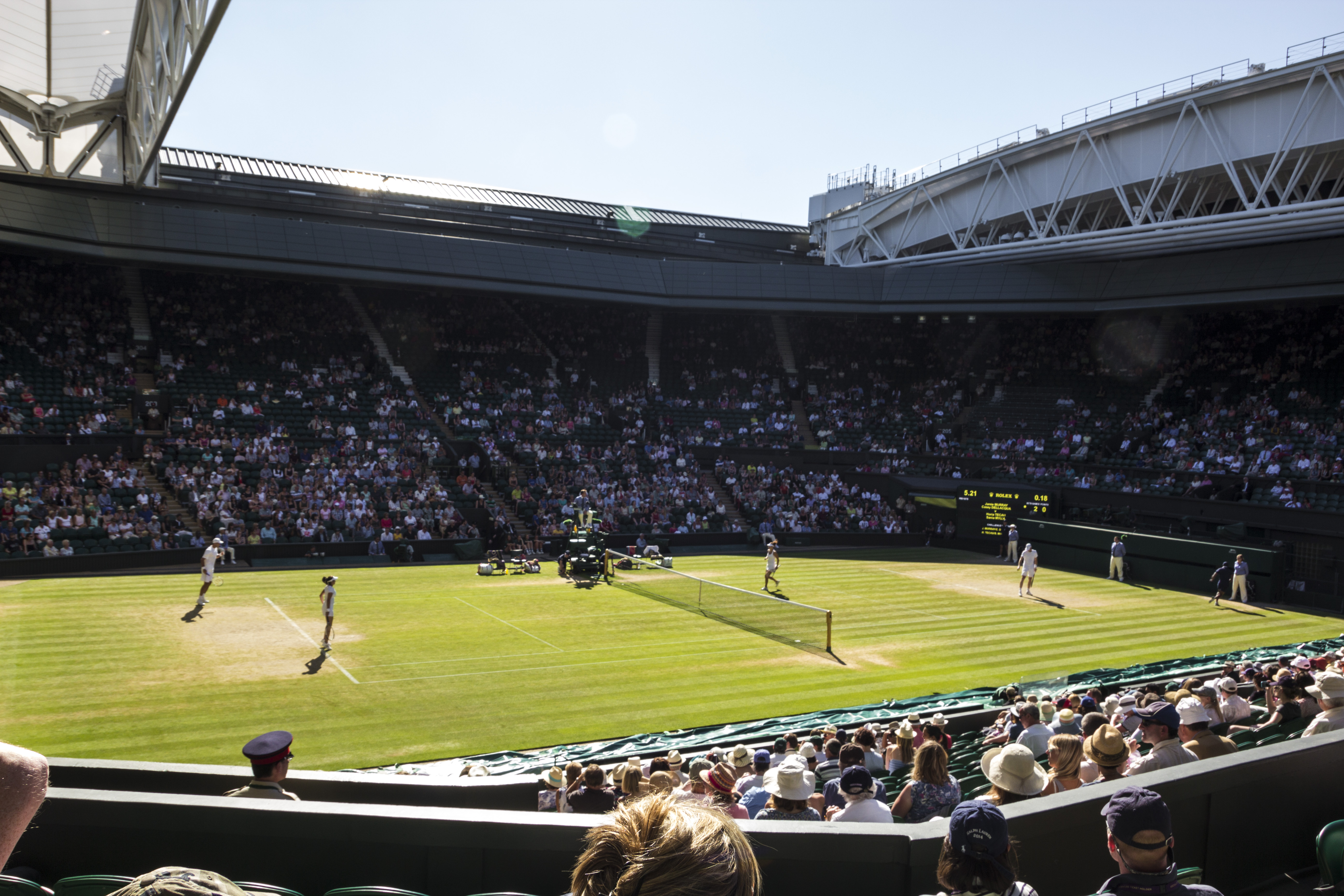 Mixed Doubles 2014: Jamie Murray and Casey Dellacqua vs Horia Tecau and Sania Mirza